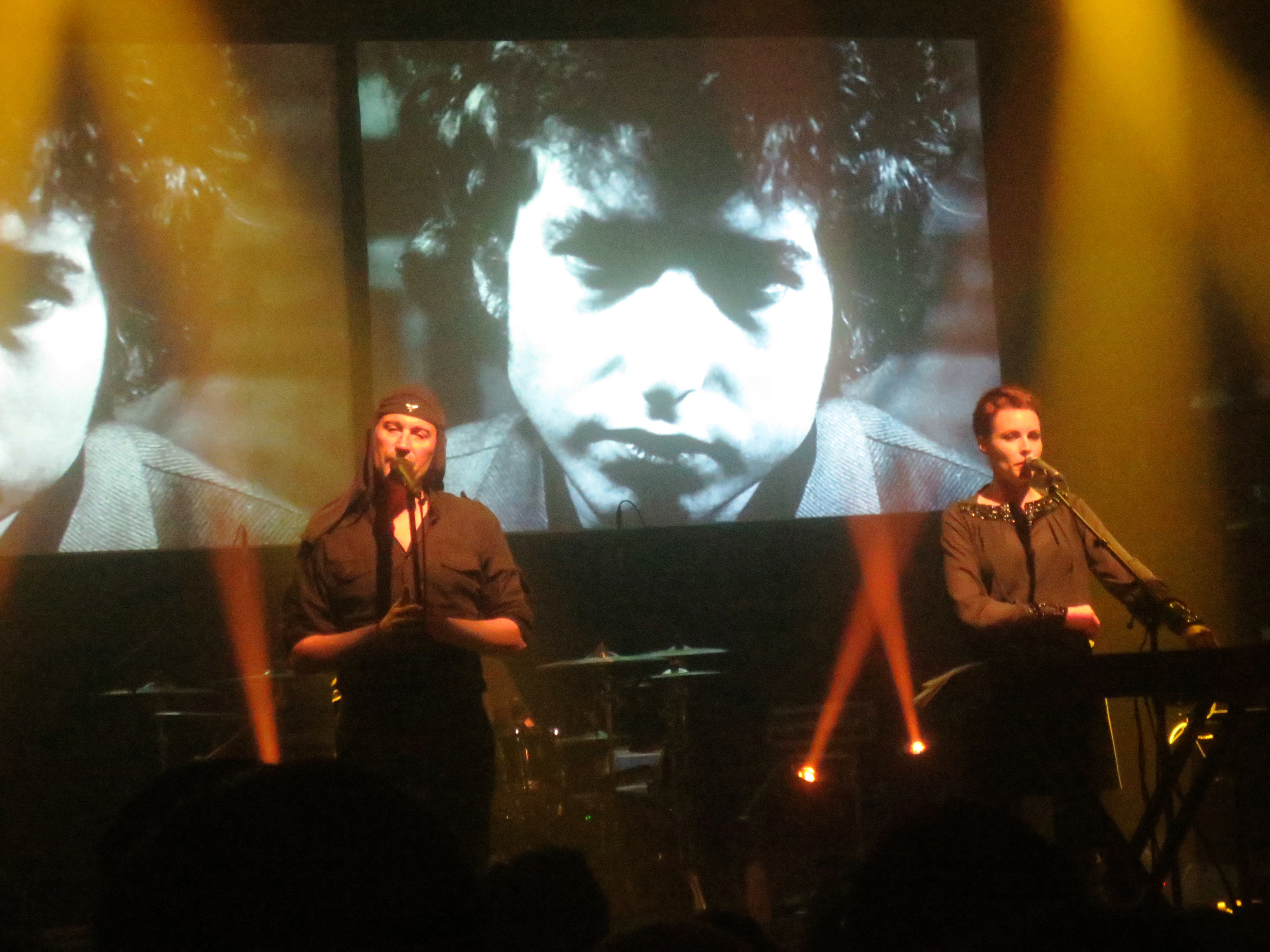 Laibach @ Gramercy Theatre, New York, 05/12/2015